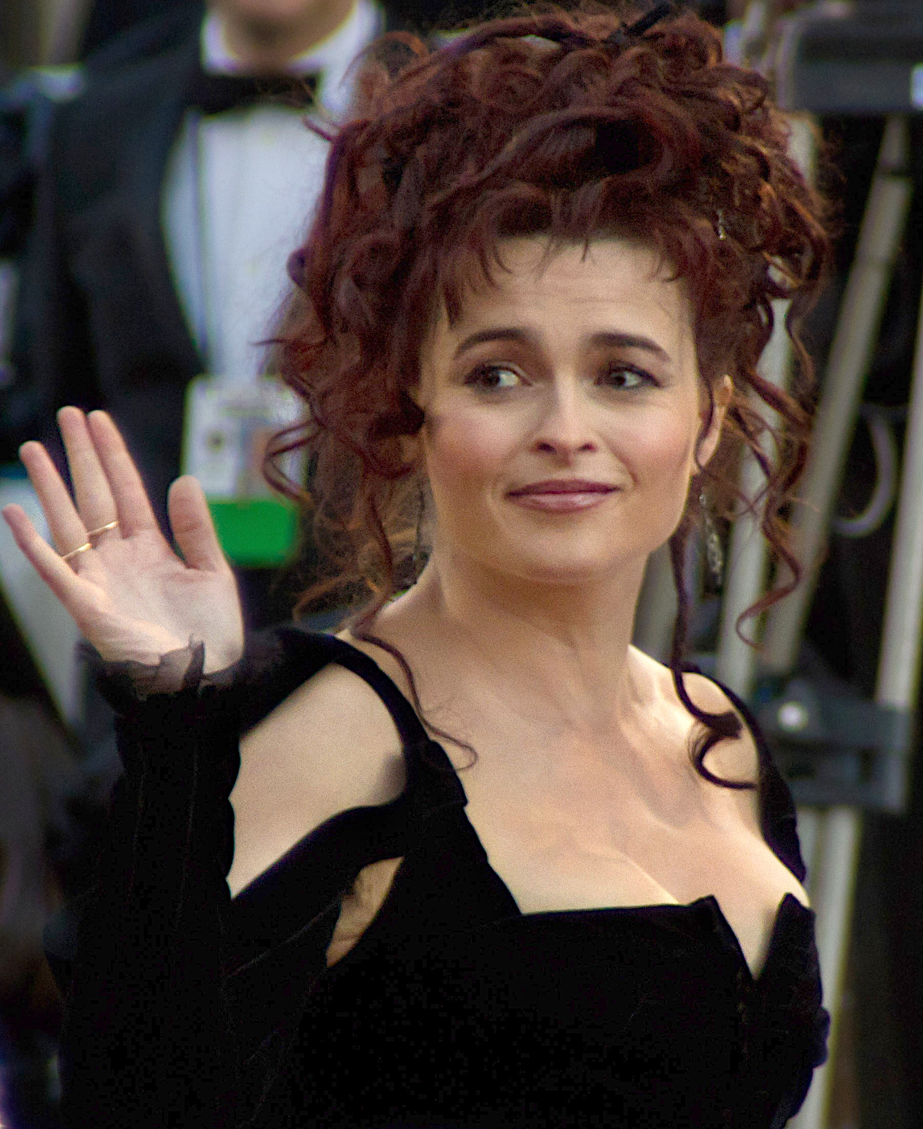 Actress Helena Bonham Carter at the 83rd Academy Awards.